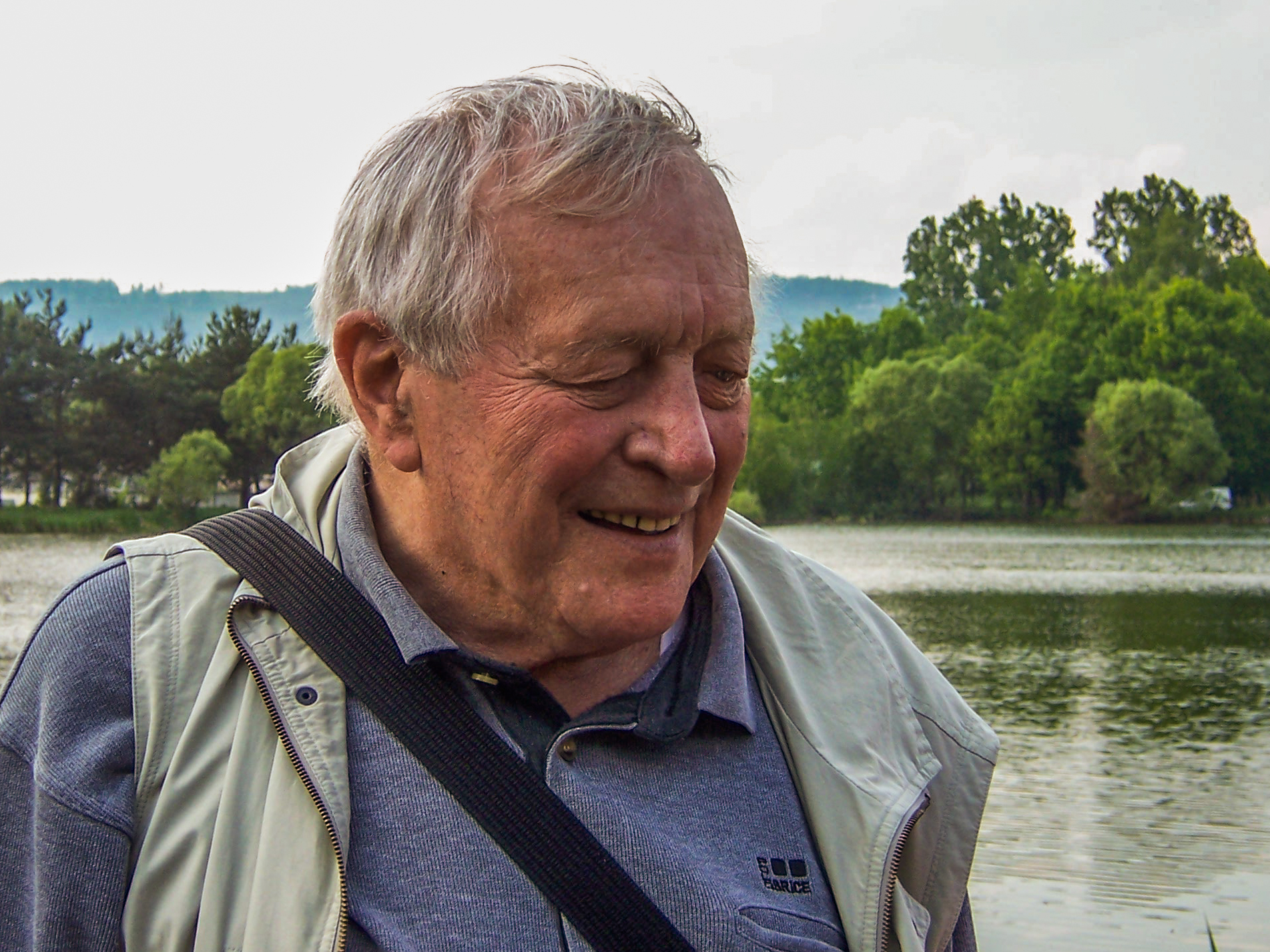 André Weckmann. In Steinbourg (Alsace, France).